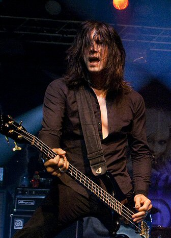 Nick Douglas live with Doro at Carioca Club - 24/04/2011 - São Paulo, Brasil